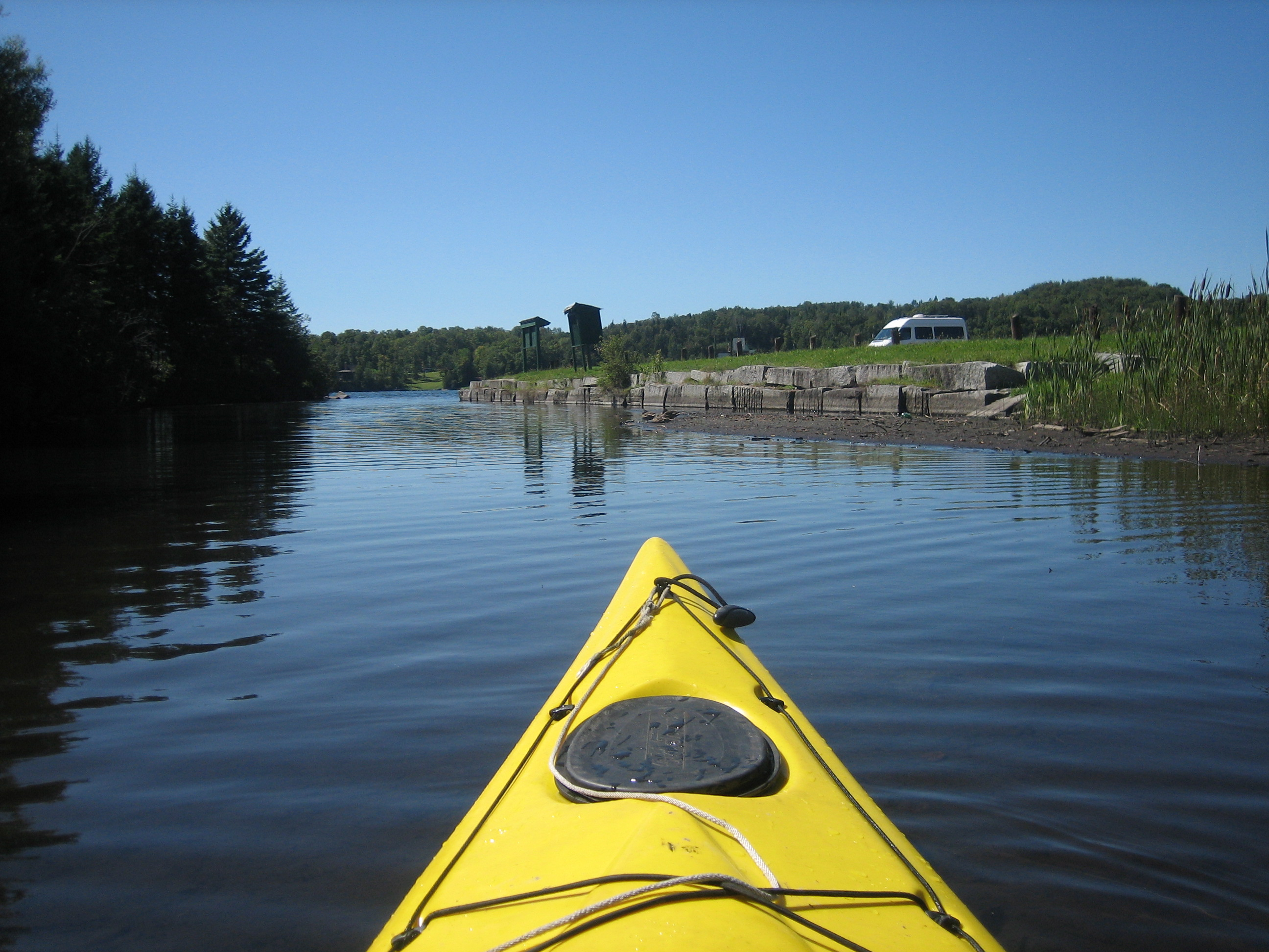 view of the tip of a kayak exploring an inlet in Seymour Lake in Morgan Vermont